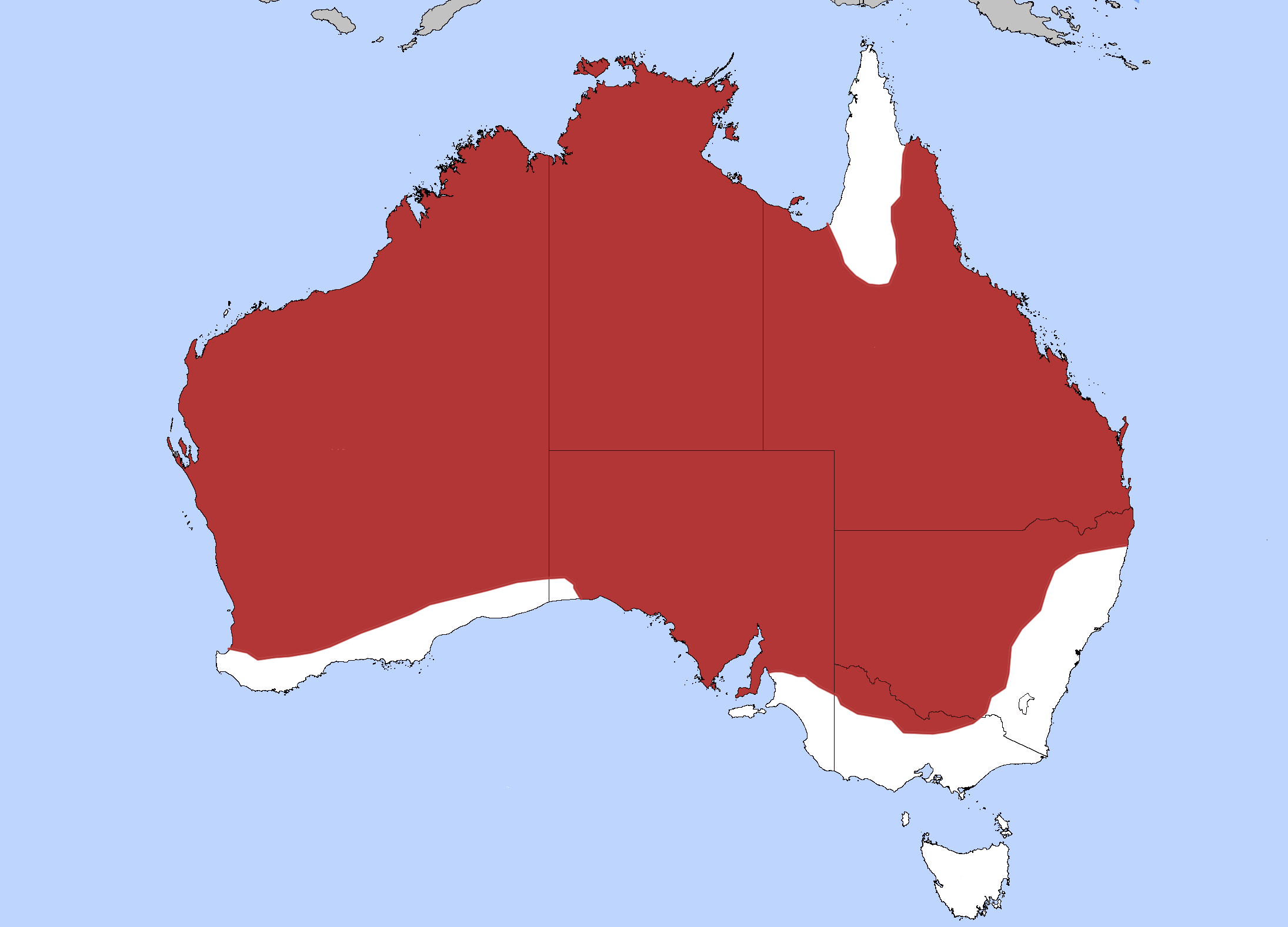 The Distribution of the Sand Goanna